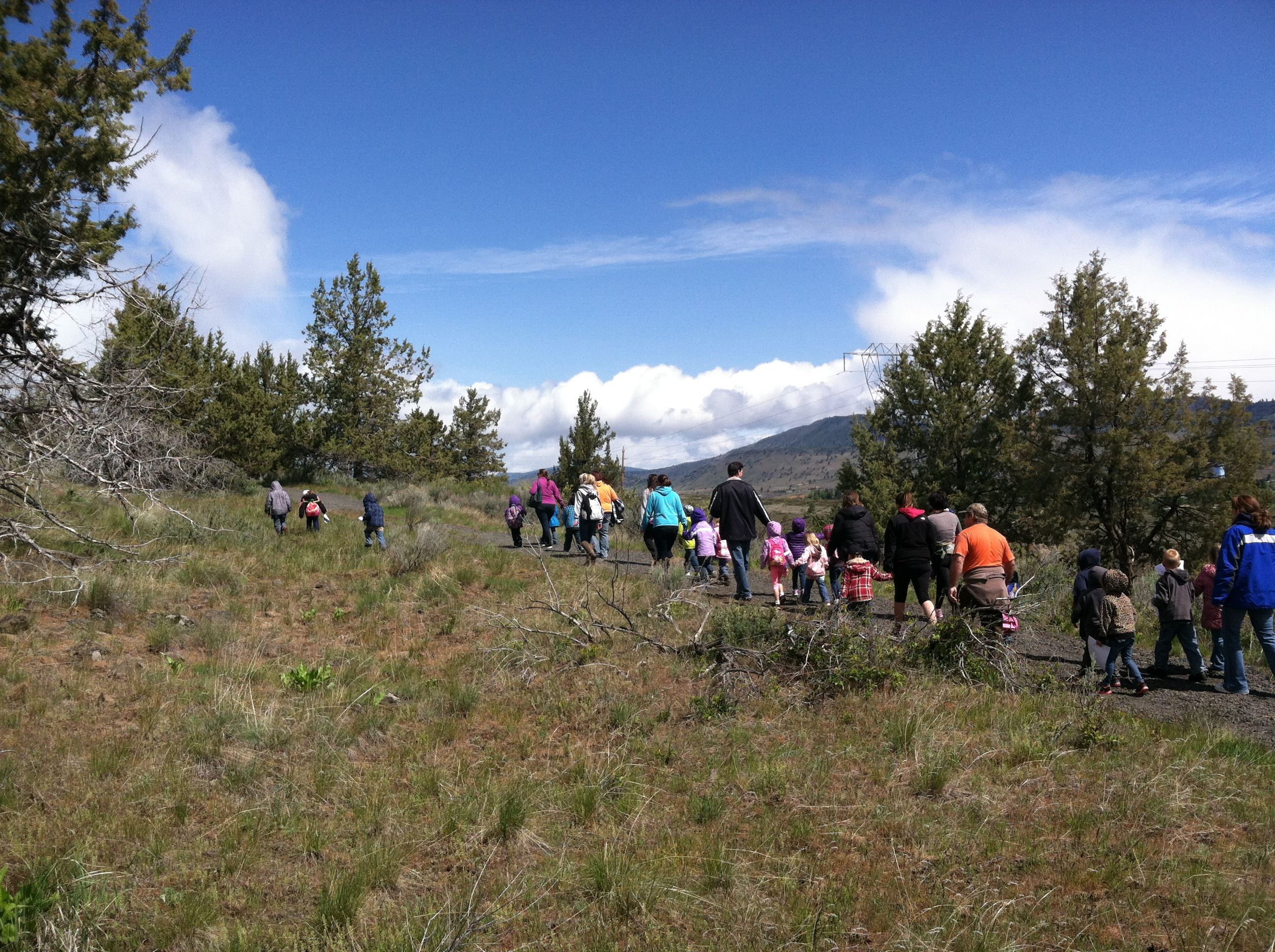 Pedestrians following one of the trails at Moore par, Klamath Falls, OR.